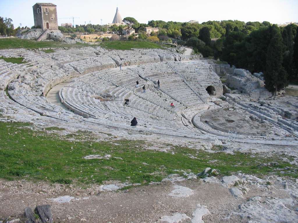 The Greek theatre in Syracuse, Sicily, Italy. Around 1900. Around 1900. In 2005.